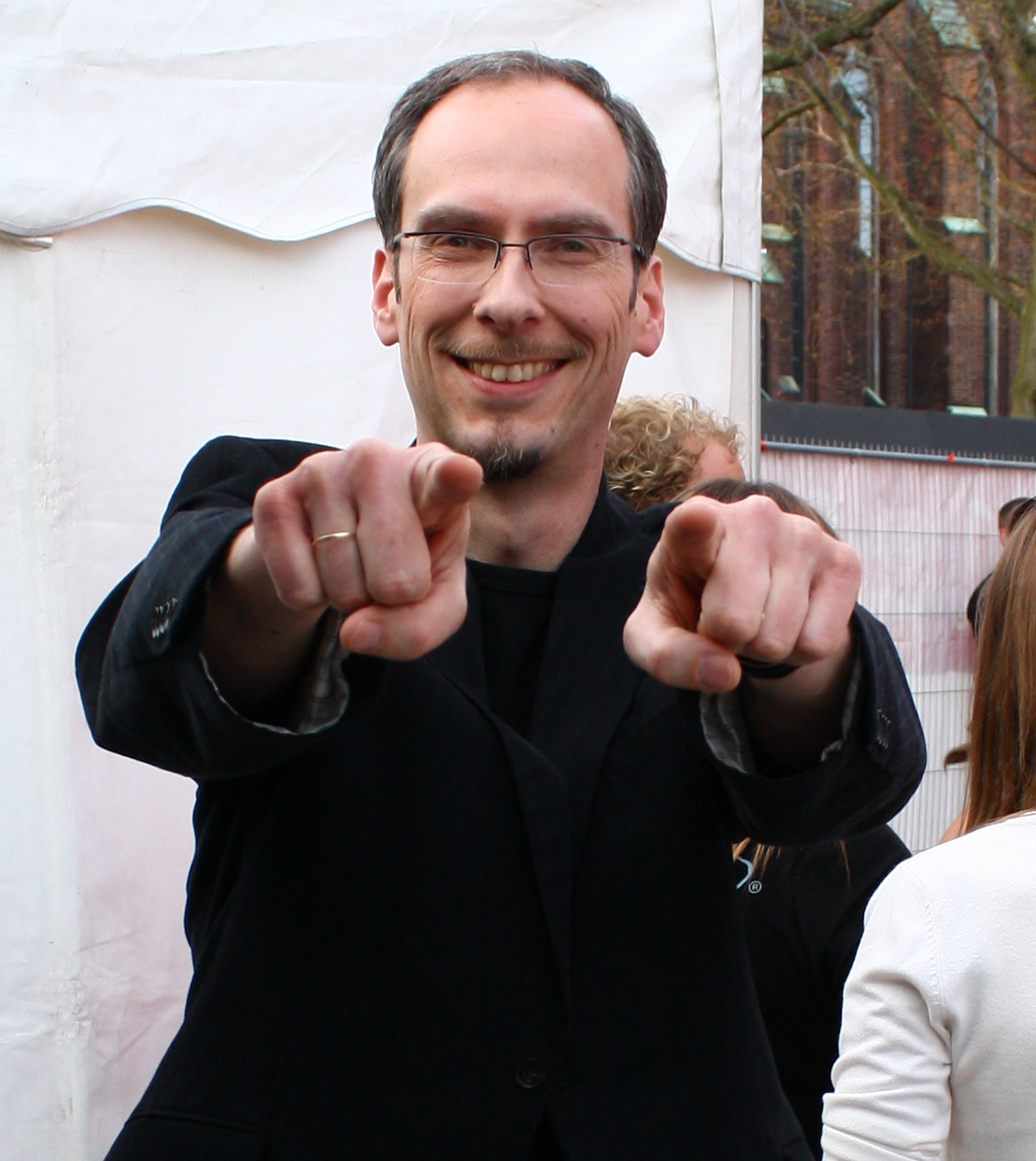 John Ment